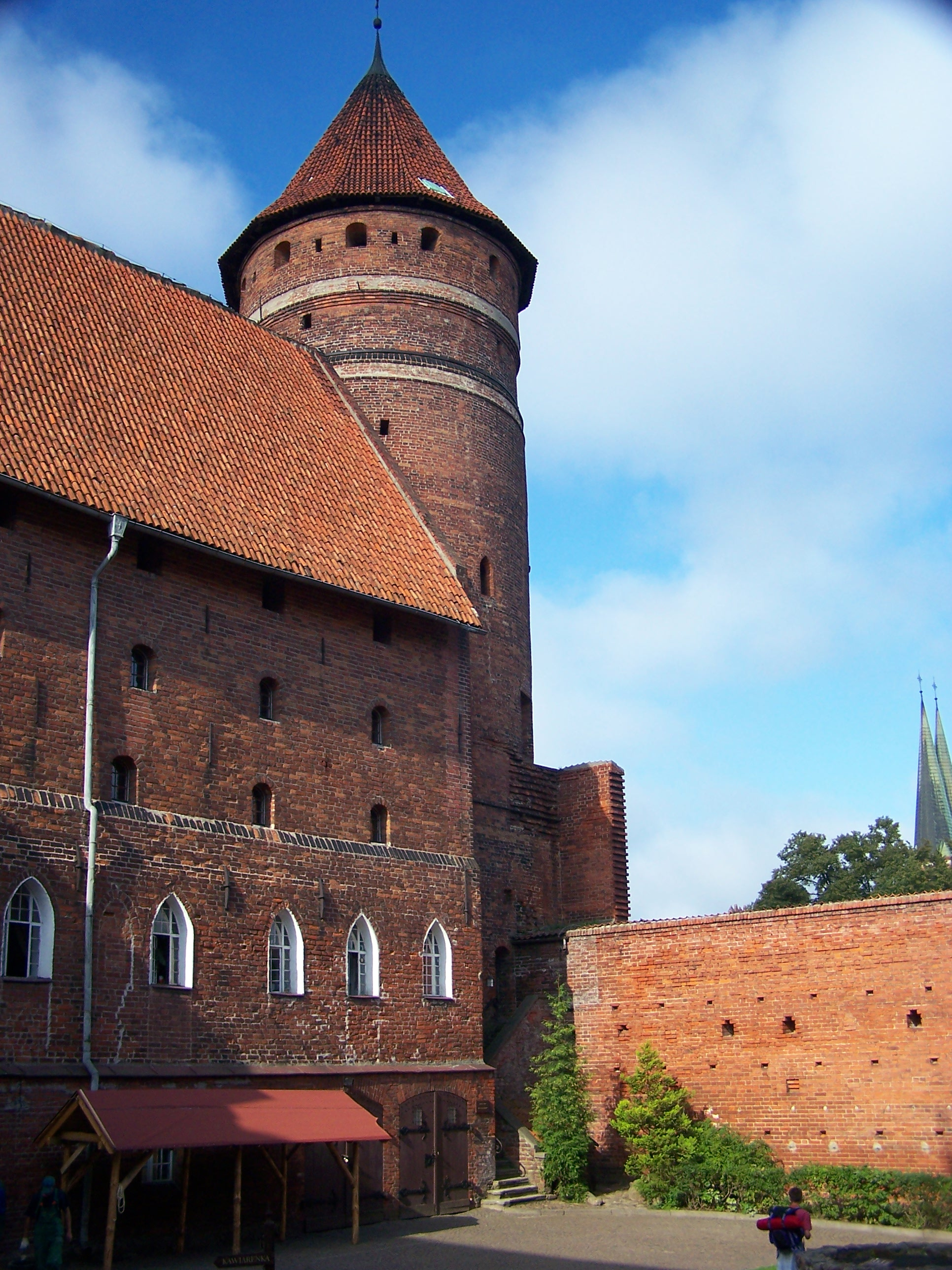 Castle in Olsztyn (Poland).